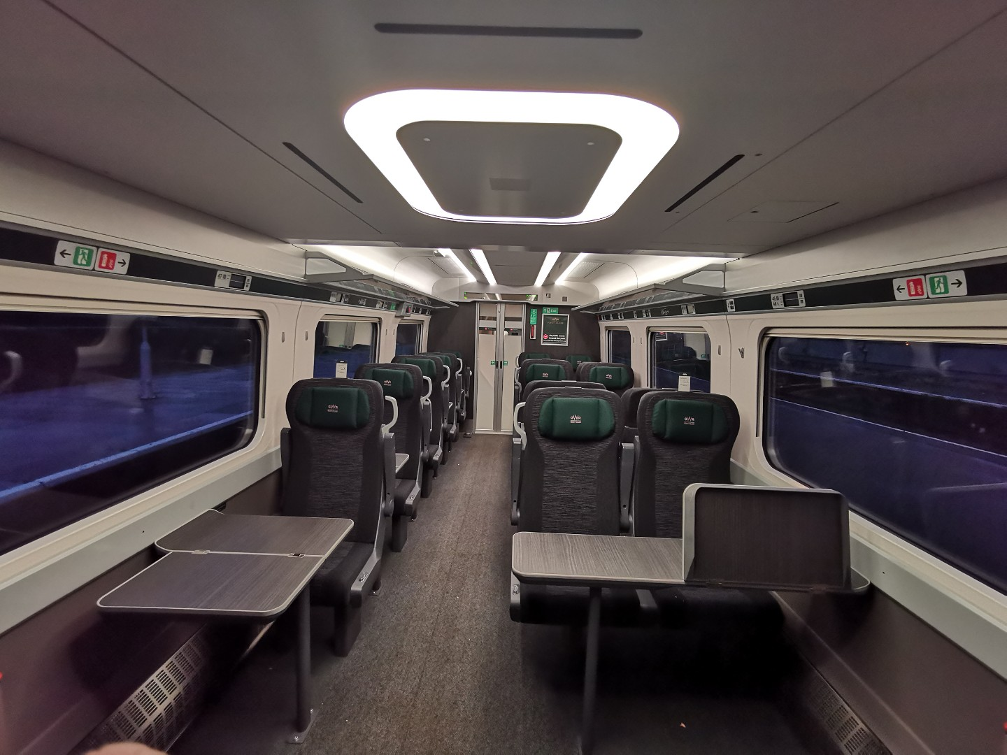 First class of the Great Western Railway Class 800 train Taken by Thu Ya Win | Gallery Any use of images uploaded by me, Wikipedia editor, must be attributed to me using my full name (Thu Ya Win) if you use it outside of Wikimedia projects such as Wikipedia. Failure to do so will result in a copyright violation. If you use my image/s outside Wikimedia, I would highly appreciate if you let me know by emailing me. This requires a Wikipedia account so if you don't have a Wikipedia account, use this link. I'm curious where my work is used. If you are a (commercial) publisher and want to use my pictures under a different license or in a way which is incompatible with the given free license, please contact me. Do not send spam to my email.